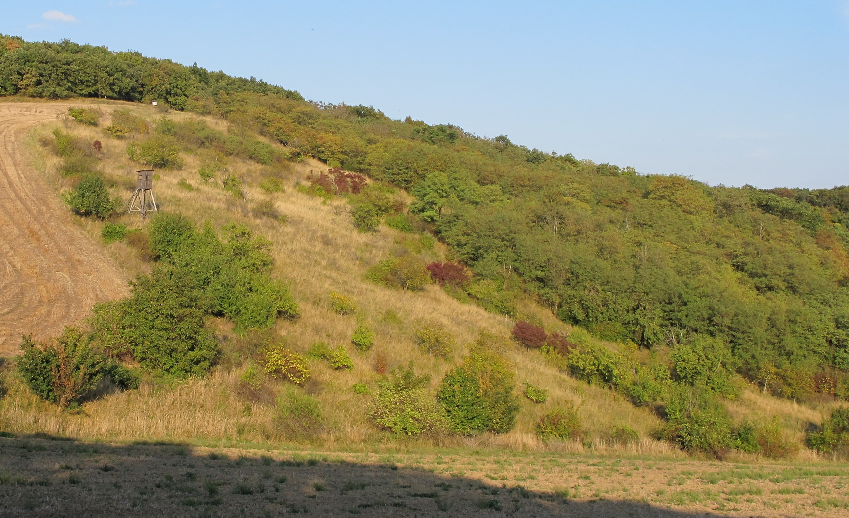 Nature reserve Zázmoníky near Bořetice in Břeclav District, Czech Republic